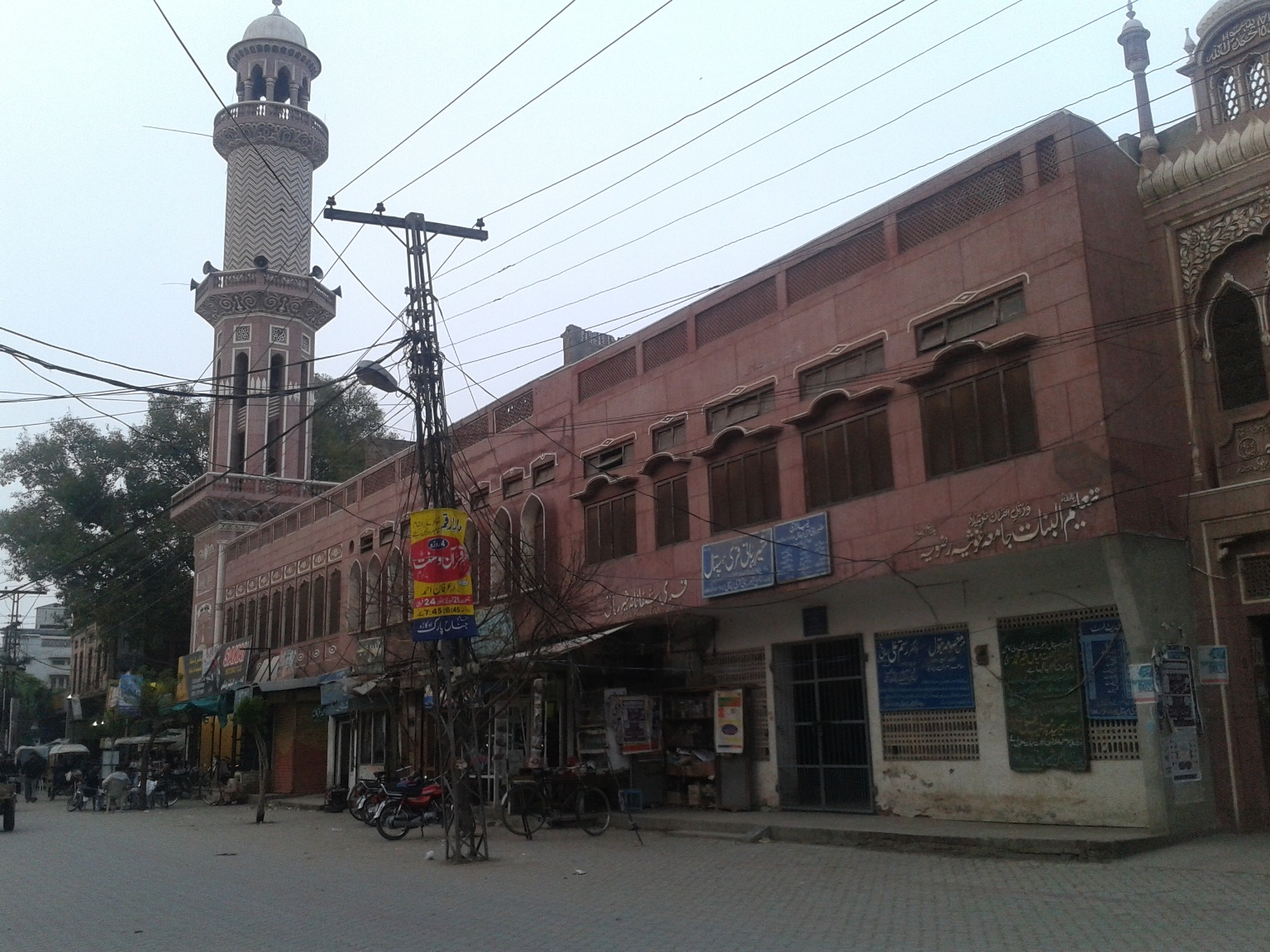 Exterior wall of the Ghausia Mosque at Katchery Bazar in Okara, Pakistan